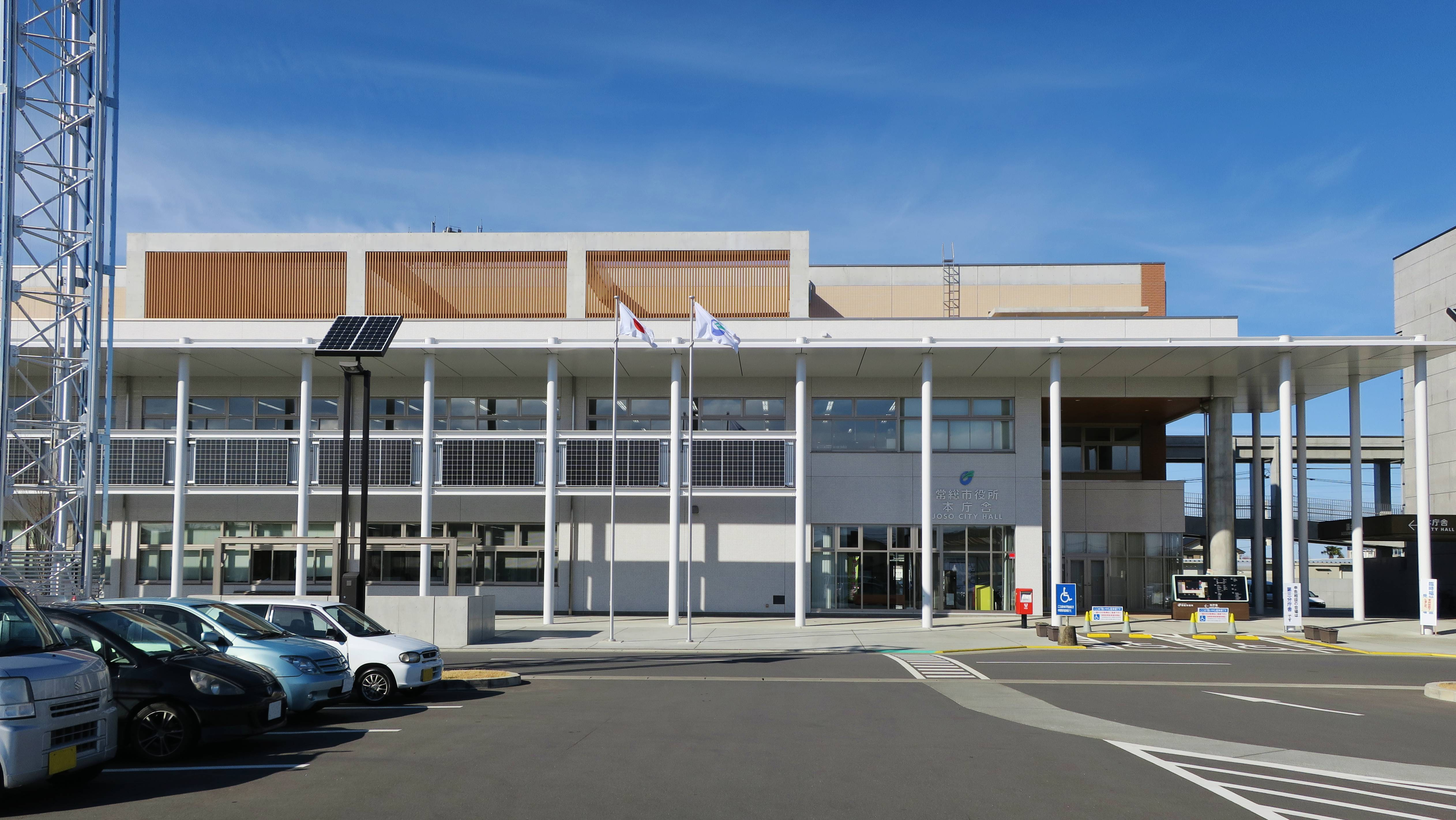 Joso city office.